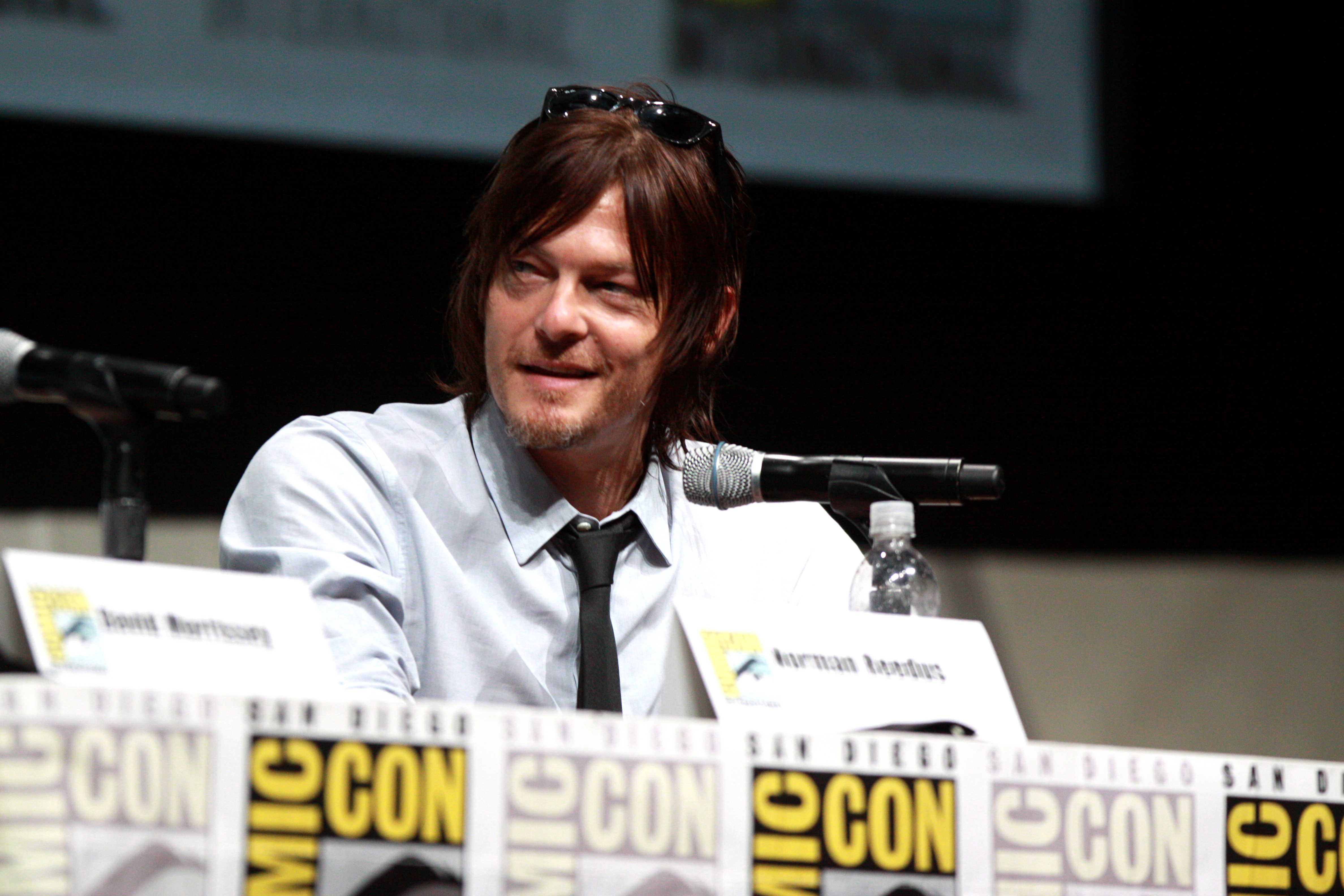 Norman Reedus speaking at the 2013 San Diego Comic Con International, for "The Walking Dead", at the San Diego Convention Center in San Diego, California.